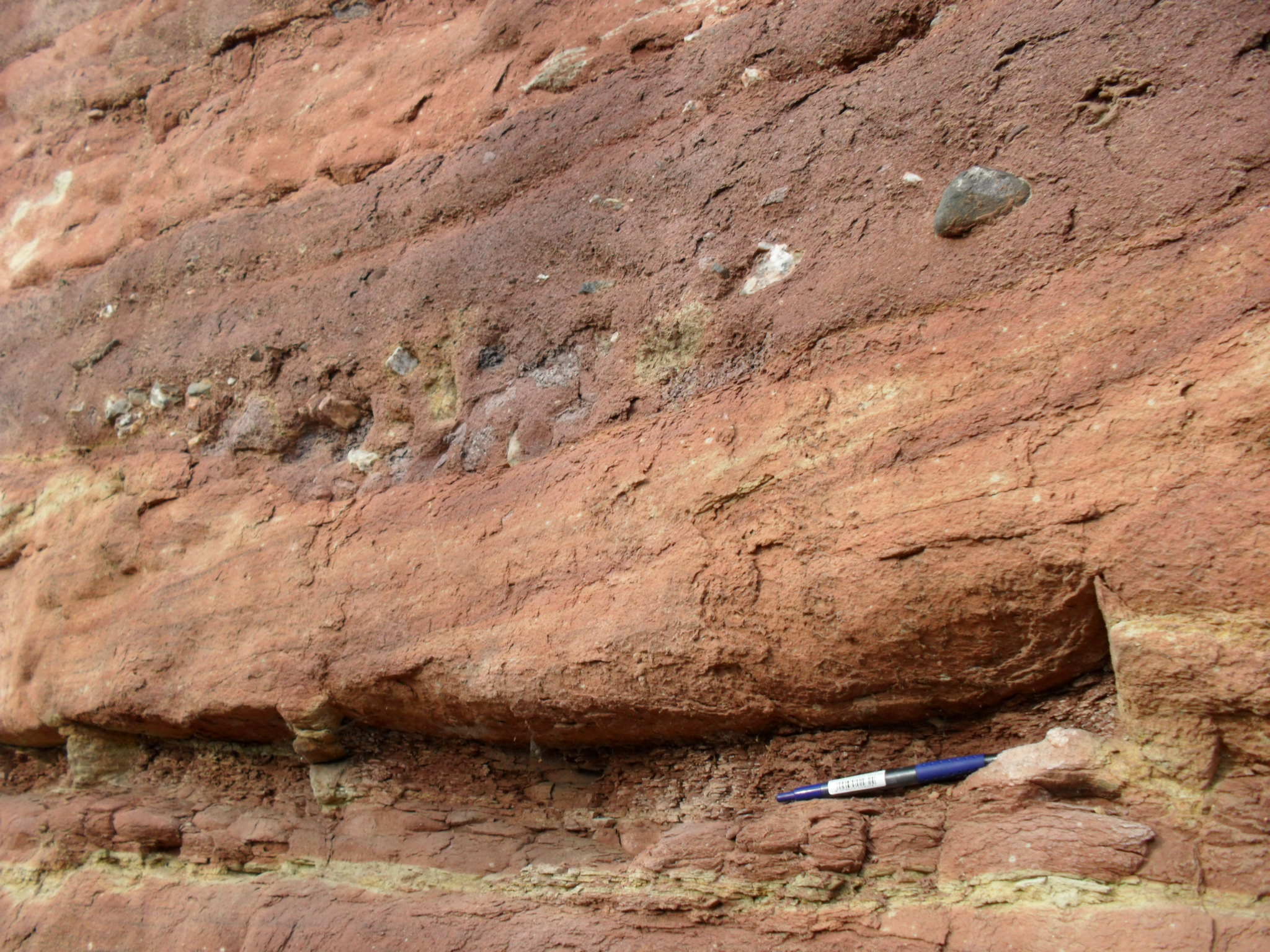 Cross-bedded red permian sandstone with conglomeratic lense. Kreuznach Beds, Bad Kreuznach